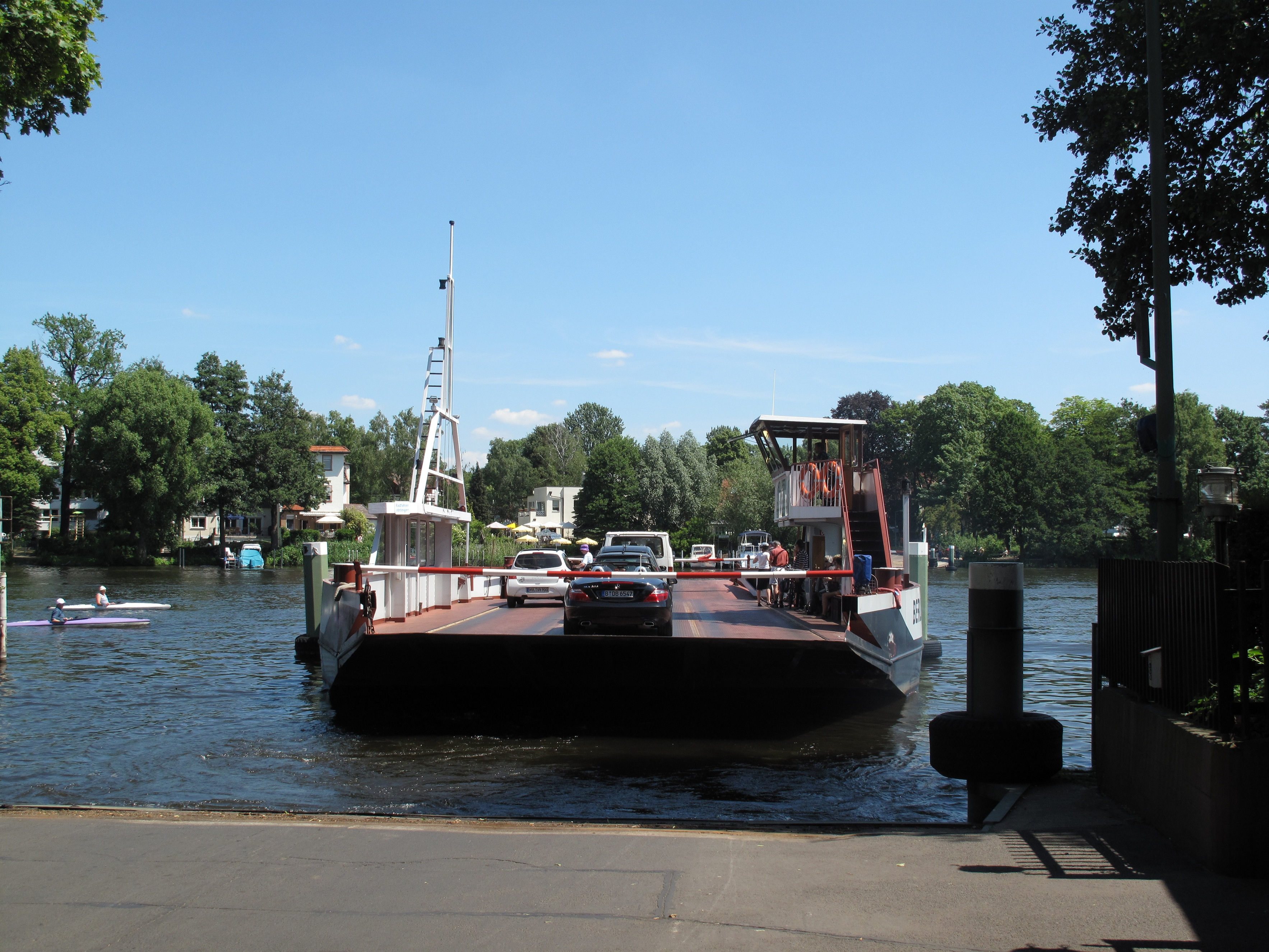 Automobile ferry Aalemannufer–Tegelort over the river Havel. The Aalemannufer (bank of the canal Aalemannkanal) is situated in Berlin, Borough Spandau, locality Hakenfelde.